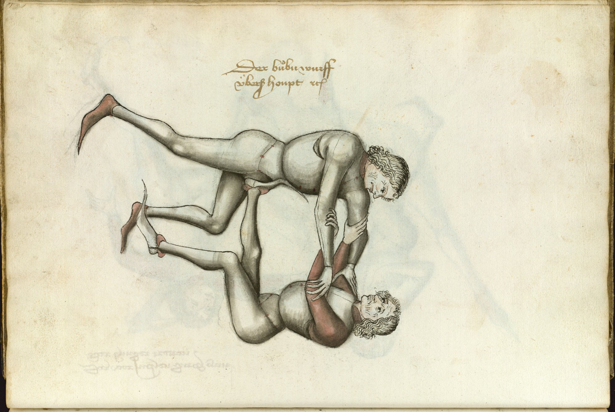 The Ms.Thott.290.2º is a fencing manual written in 1459 by Hans Talhoffer for his own personal reference and illustrated by Michel Rotwyler.